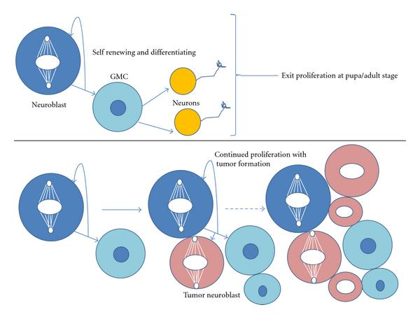 Abnormal neuroblast proliferation and brain tumor formation. (a) (Top), wild-type Drosophilae have “normal neuroblasts” which undergo a regulated self-renewal and differentiation process to generate neurons or glial cells. This proliferation exits at pupal stage. (Bottom), Dysregulated asymmetric cell division in central brain neuroblasts of larval brains with knockdown or knockout of cell-fate determinants results in brain tumor formation [24, 29–32]. The disturbed balance between self-renewal and differentiation results in the generation of self-renewing “tumor neuroblasts” and indefinite proliferation. (b) (Left) wild-type larval brain compared to (right) cell fate determinant (brat/prospero/numb) mutant, overproliferated brain. Transplantation of dissected GFP-labeled neuroblasts from the latter results in tumor formation in host flies and subsequent metastasis [32–34].